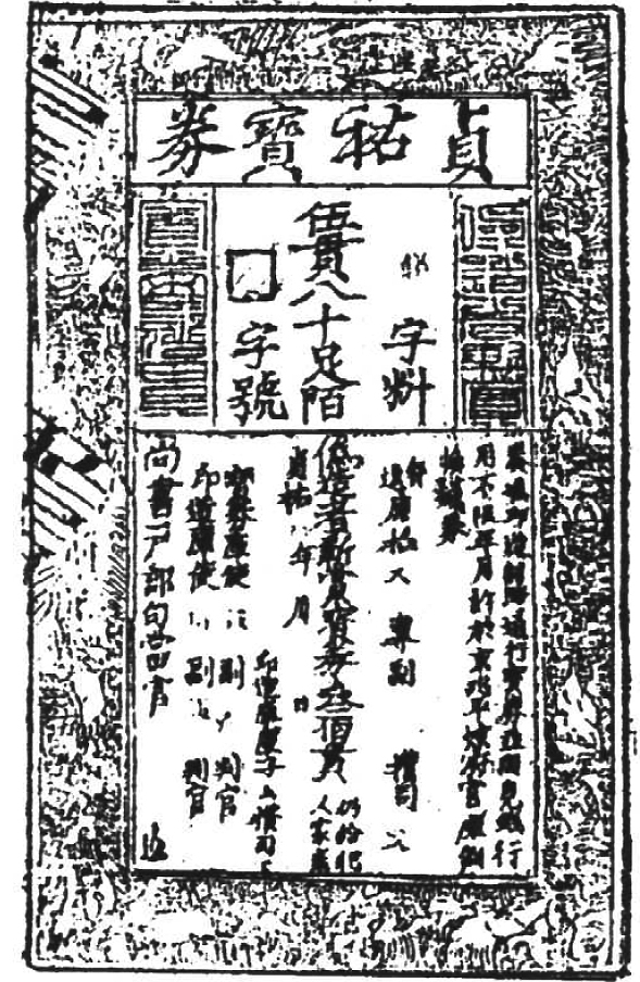 5000 cash copper plate paper money printed in 1215-1215, with two bronze moveable type counterfeit markers, one filled with a bronze movable type, the other lost leaving a black square hole